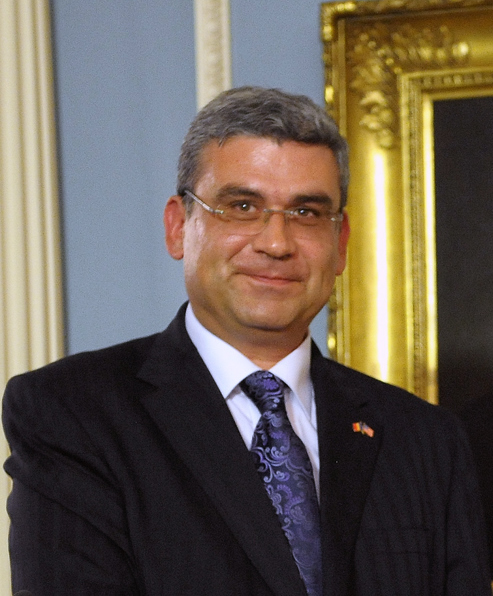 Romanian Foreign Minister Teodor Baconschi after a joint press conference with U.S. Secretary of State Hillary Rodham Clinton and signing of the Ballistic Missile Defense Agreement, in the Treaty Room at the U.S. Department of State in Washington, D.C., on September 13, 2011.